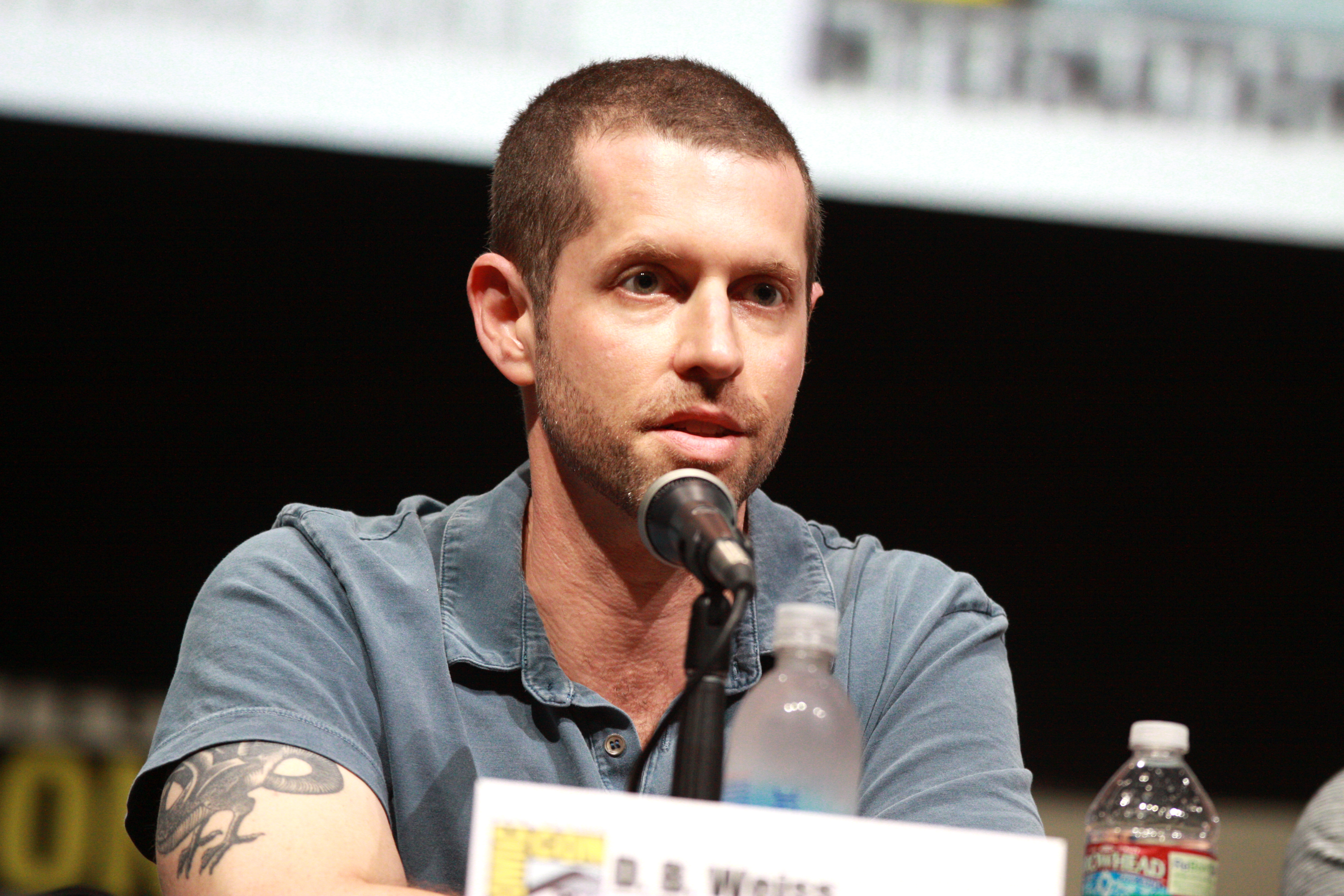 D. B. Weiss speaking at the 2013 San Diego Comic Con International, for "Game of Thrones", at the San Diego Convention Center in San Diego, California.